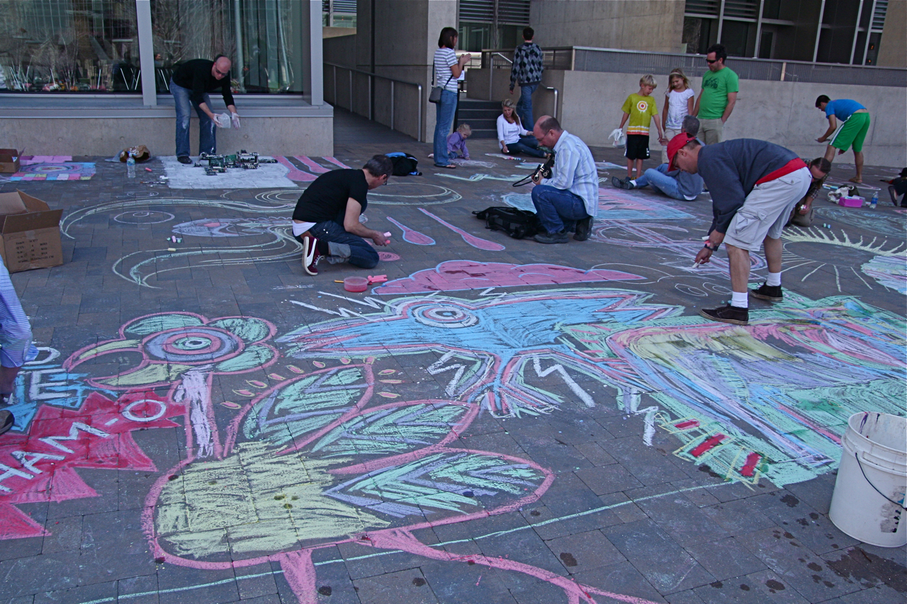 Sidewalk Chalk Flood 2009, another Rob Bliss Urban Experiment in downtown Grand Rapids